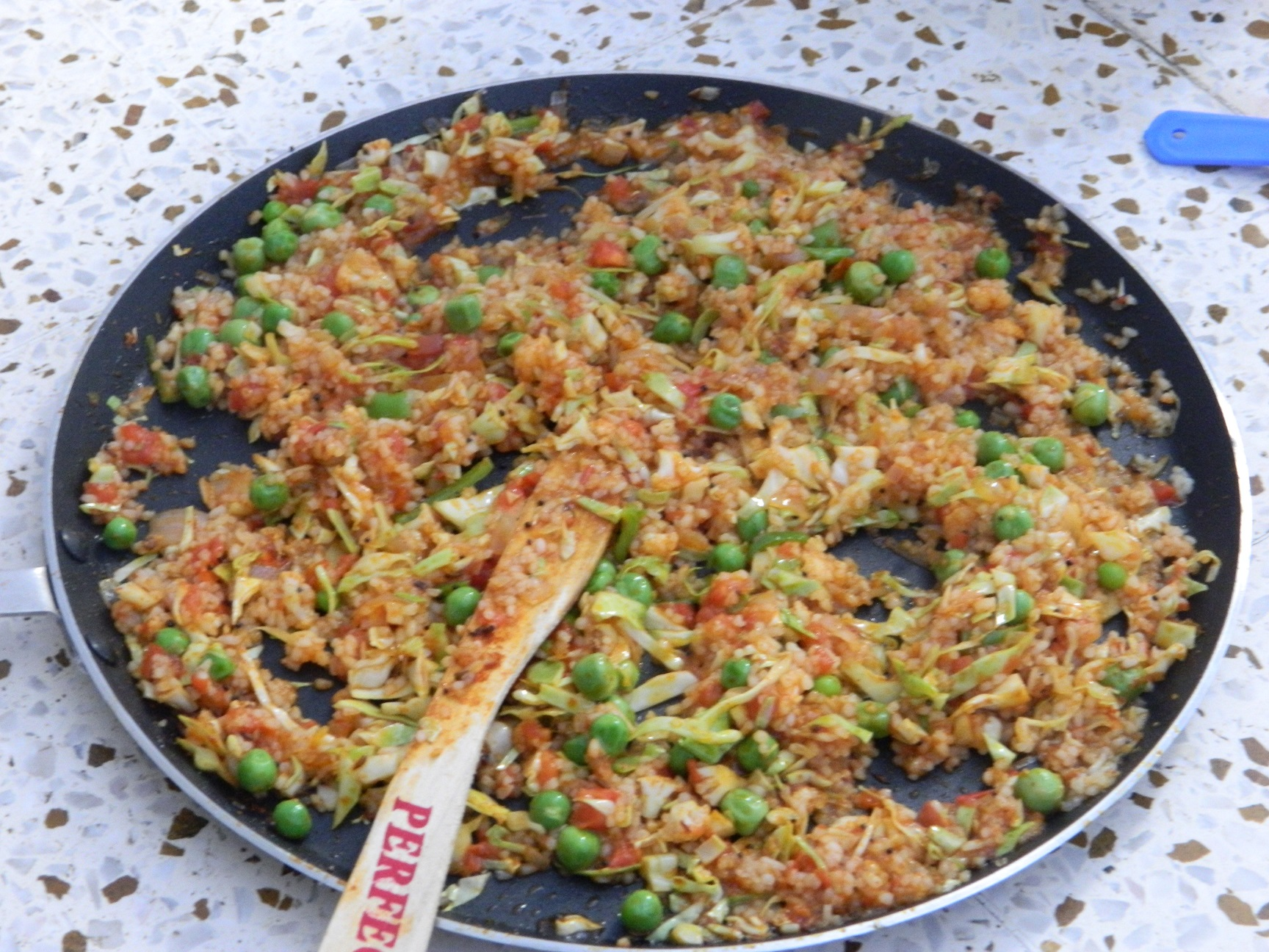 Biriyanii with green vegetables